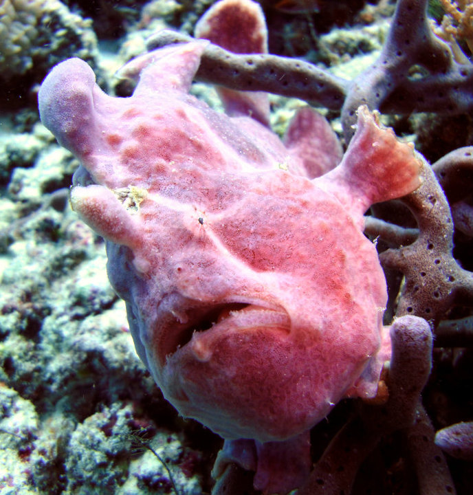 Giant frog fish on Pom Pom Island, Celebes resort, Sabah